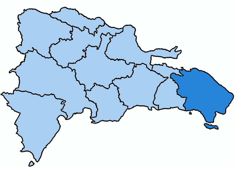 Includes provinces of La Altagracia, El Ceibo and La Romana